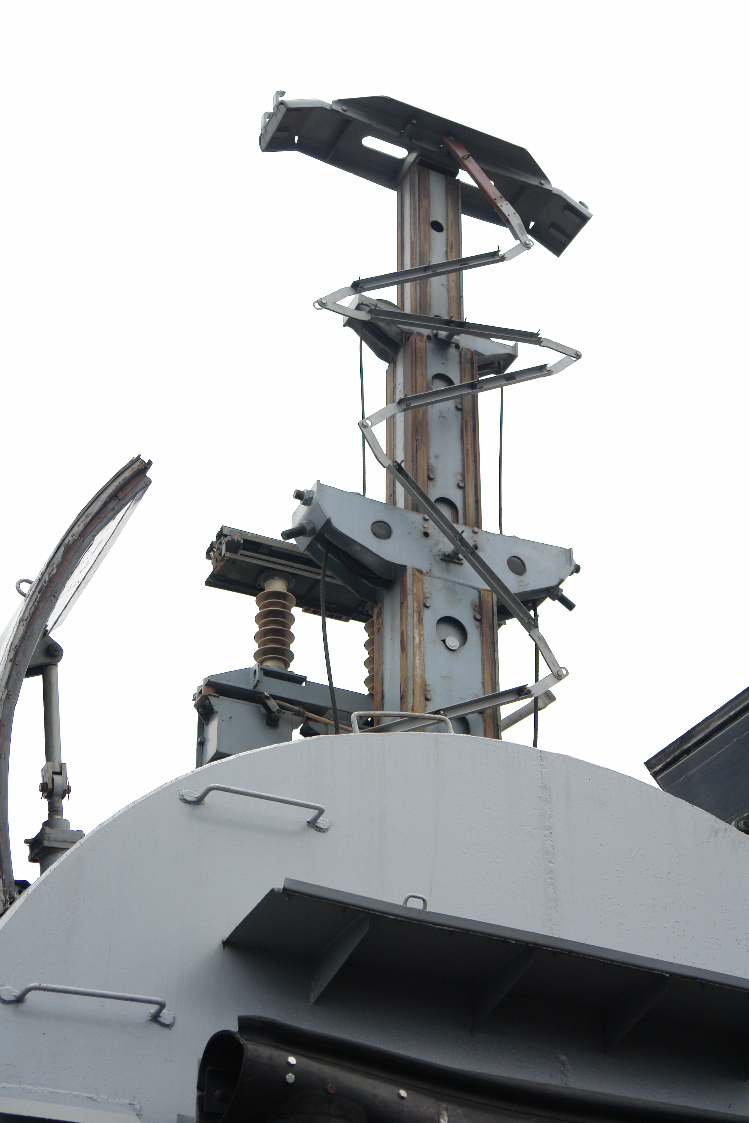 Military railway missile complex 15P961 "Molodets" with intercontinental missile 15ZH61 (RT-23 UTTH, SS-24 SCALPEL) Launching car Built by the Kalinin works in 1986 Length23,6 mWidth3,2 mHeight5,0 mWeight200 t The design is based on the 8-axles freight car (loac 135 t). The roof is opened by the hydraulic gear. Thi missile carries ten nuclear warheads each with a yielc of 0.A3 Mt. Warheads are equipped with an arrangemeni for overcoming of antiballistic missile system Power supply car Built by the Kalinin works in 1986 Length23,6 mWidth3,2mHeight5,0 m Contains four diesel generators each with a power of 100 kW for independent operation of launching unit. Provided with an arrangement able to short-circuit and push aside the overhead contact wire. Длина23,6 мШирина3,2 мВысота5,0м Оборудован четырьмя дизель-генераторами мощностью 100 кВт для обеспечения автономной работы пускового модуля а так же устройством для закорачивания и отвода контактной сети (ЗОКС).Date28 October 2007SourceOwn workAuthorGeorge ShuklinPermission (Reusing this file) Own work, share alike, attribution required (Creative Commons CC-BY-SA-2.5)